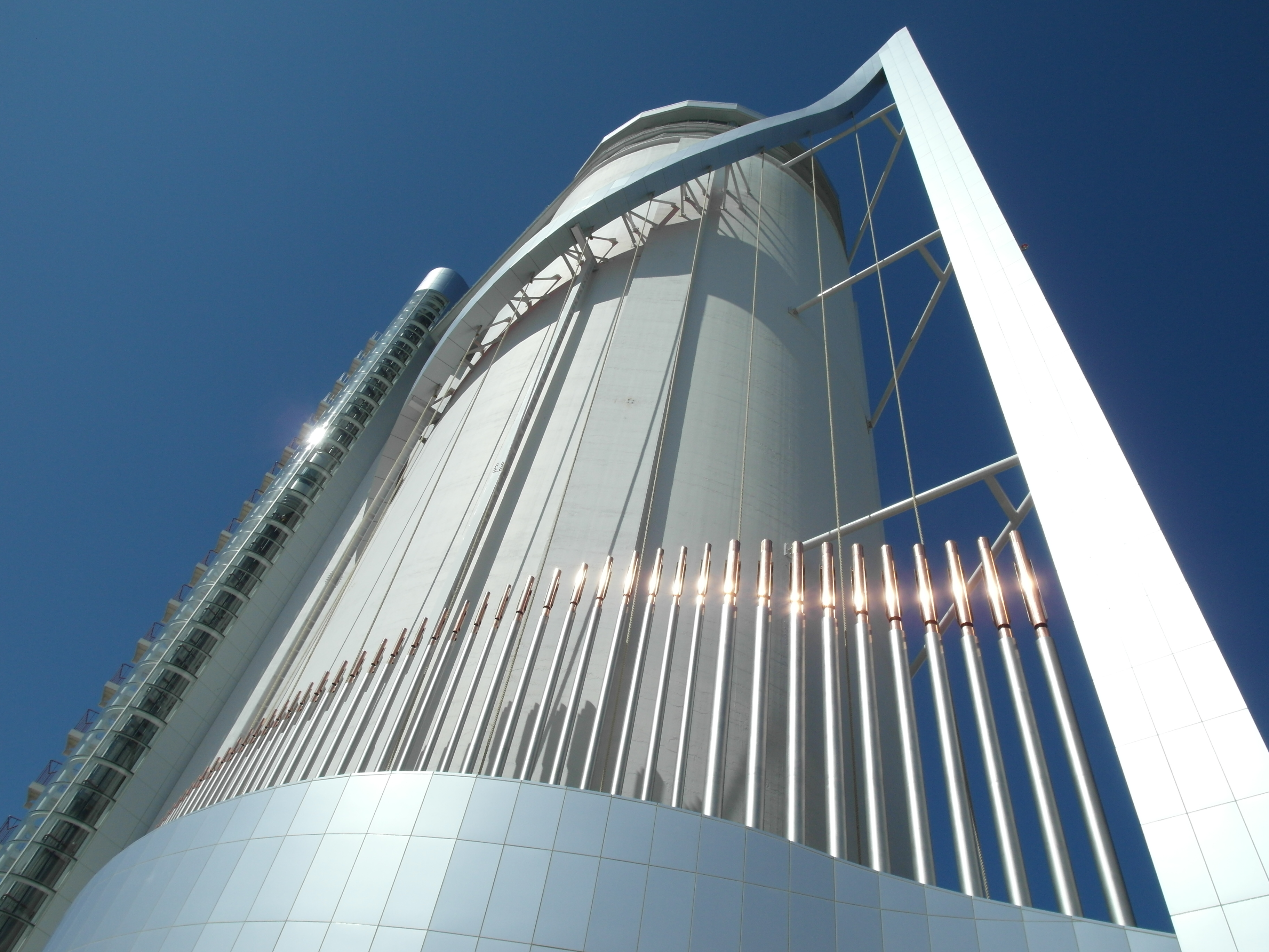 The Vox Maris is the pipe organ at Sky Tower, invented by Thomas Hey. Built by Hey Orgelbau, Germany, for Yeosu Expo 2012 in South Korea.